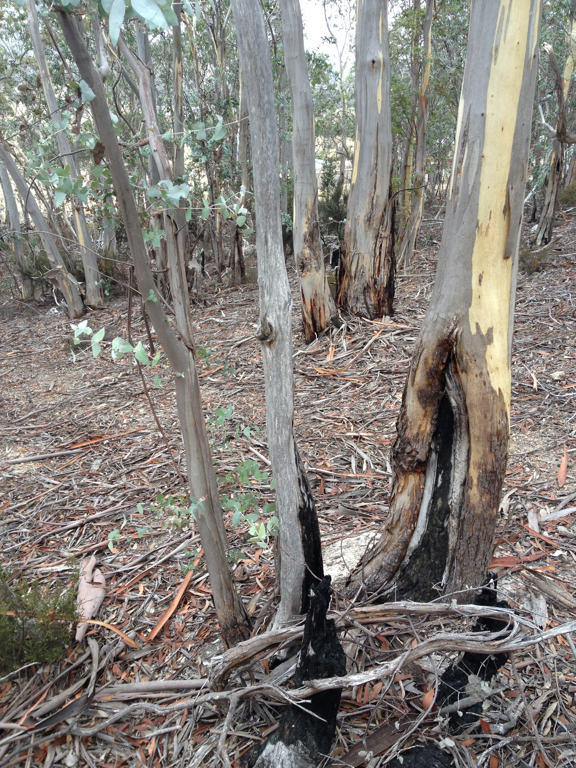 Burnt Bases of Eucalyptus tenuiramis in Dry Sclerophyll Forest, Sandford, Tasmania.